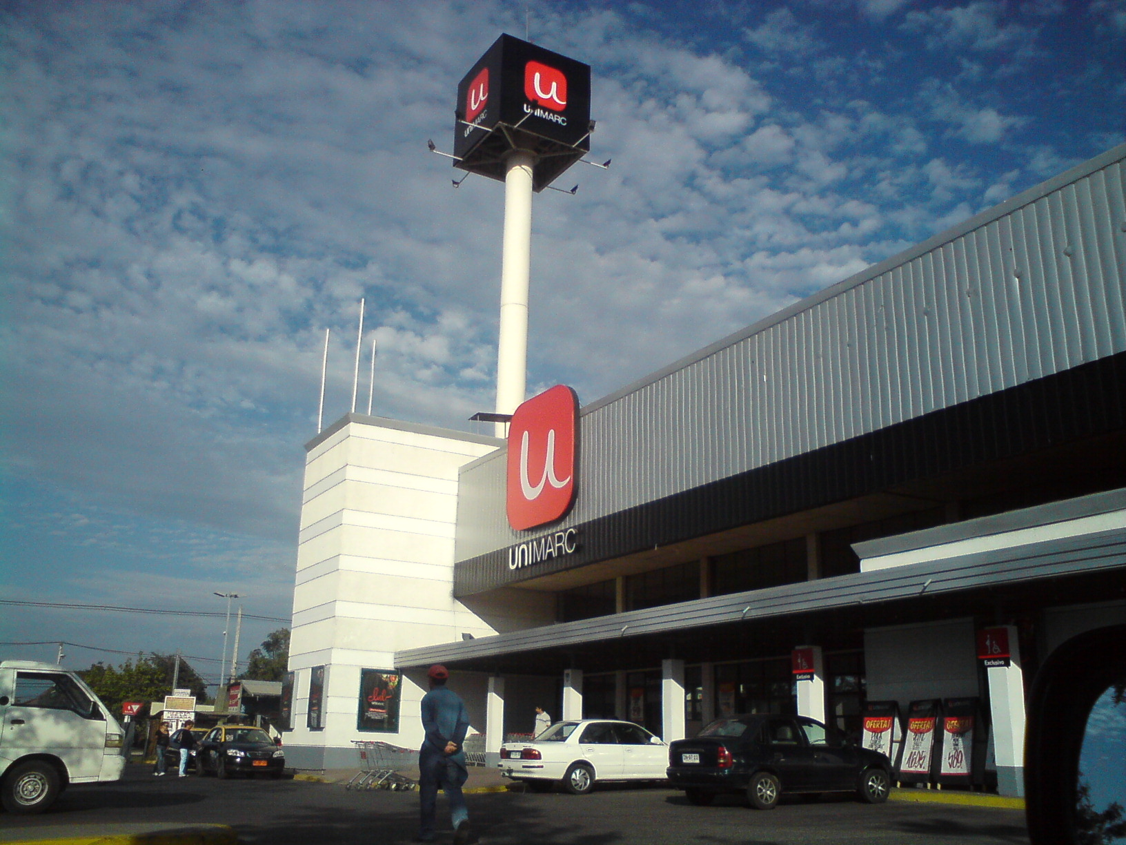 Frontis del supermercado Unimarc visto desde el estacionamiento. Avenida Alfredo Silva Carvallo 1414, Ciudad Jardín (villa Los Héroes), Maipú. Santiago de Chile.